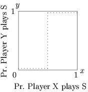 Reaction correspondence for player Y in the Stag Hunt game, image creasted by Pete.Hurd